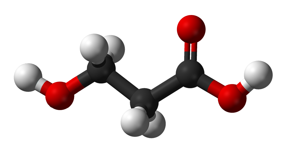 Ball and stick model of the 3-hydroxypropionic acid molecule. Colour code: Carbon, C: black Hydrogen, H: white Oxygen, O: red